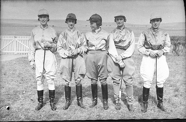 A Day at the Races' - a collection from the State Government of NSW This file was posted to Flickr by the State Library of New South Wales (NSW). See also their website. This tag does not indicate the copyright status of the attached work. A normal copyright tag is still required. See Commons:Licensing for more information. This image is of Australian origin and is now in the public domain because its term of copyright has expired. According to the Australian Copyright Council (ACC), ACC Information Sheet G023v17 (Duration of copyright) (August 2014).3 Type of materialCopyright has expired if … A Photographs or other works published anonymously, under a pseudonym or the creator is unknown:taken or published prior to 1 January 1955BPhotographs (except A):taken prior to 1 January 1955CArtistic works (except A & B):the creator died before 1 January 1955DPublished editions1 (except A & B):first published more than 25 years agoECommonwealth, State or Territory owned2 photographs and engravings:taken or published more than 50 years ago 1 means the typographical arrangement and layout of a published work. eg. newsprint. 2 owned means where a government is the copyright owner as well as would have owned copyright but reached some other agreement with the creator. 3 Copyright Amendment (Disability Access and Other Measures) Bill 2017 (Australian Government) When using this template, please provide information of where the image was first published and who created it.